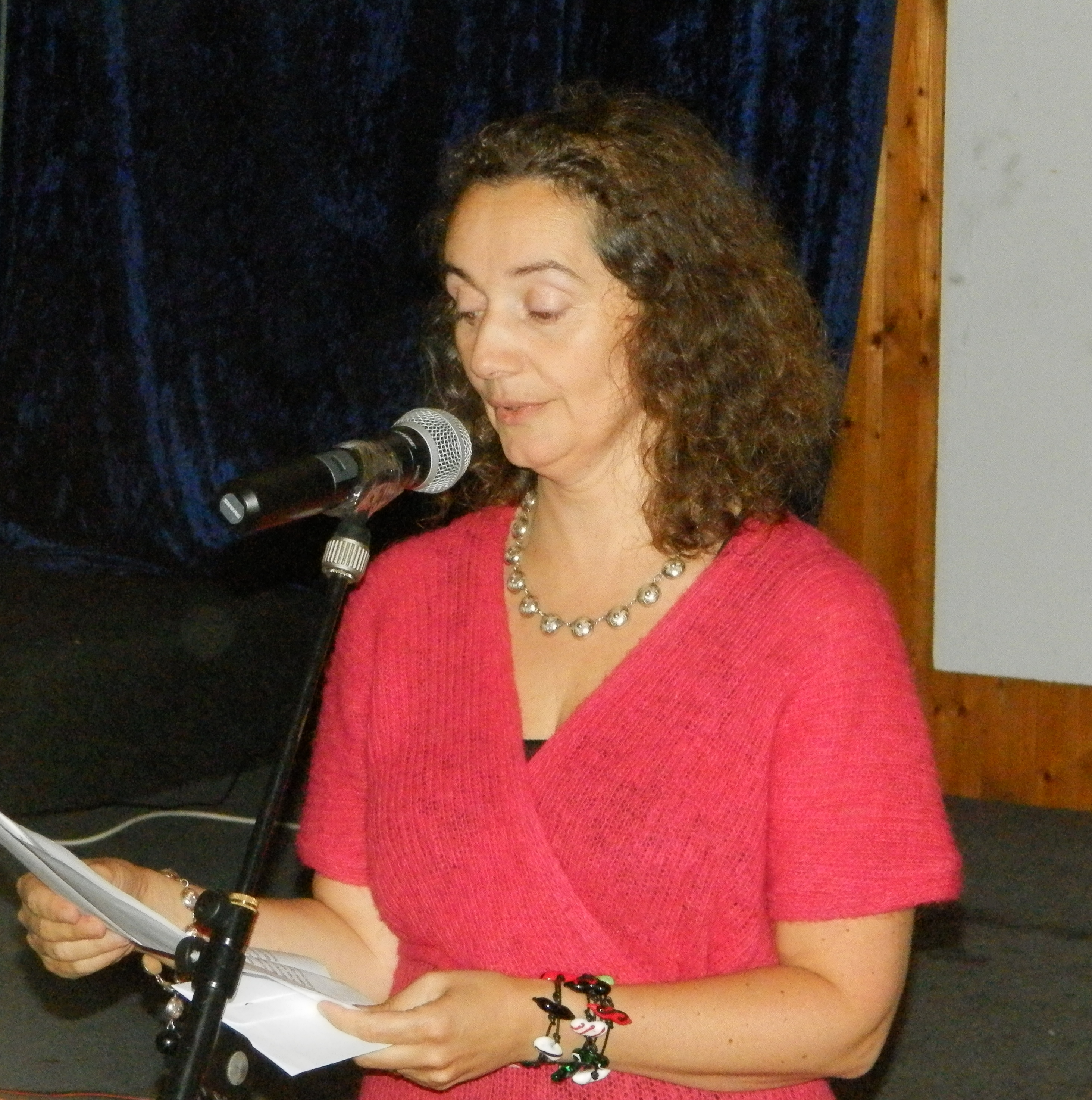 Sirið Stenberg is a Faroese politician. Here she giving a speech to honour Pál Joensen, who is Faroe Islands best swimmer. He won two silver medals at the European Aquatics Championship in Berlin in August 2014. His hometown celabrated him, when he came back home for a short visit in September 2014.